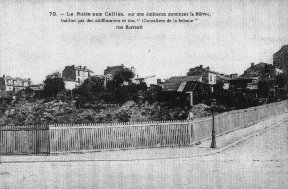 An old postcard showing the Butte-aux-Cailles around 1900, 13th arrondissement of Paris, France. It include the following text: “70. - The Butte aux Cailles. on an hillock overhang the Bièvre river, populated by Rag-and-bone men and by “knight of bricole” Barrault street”.